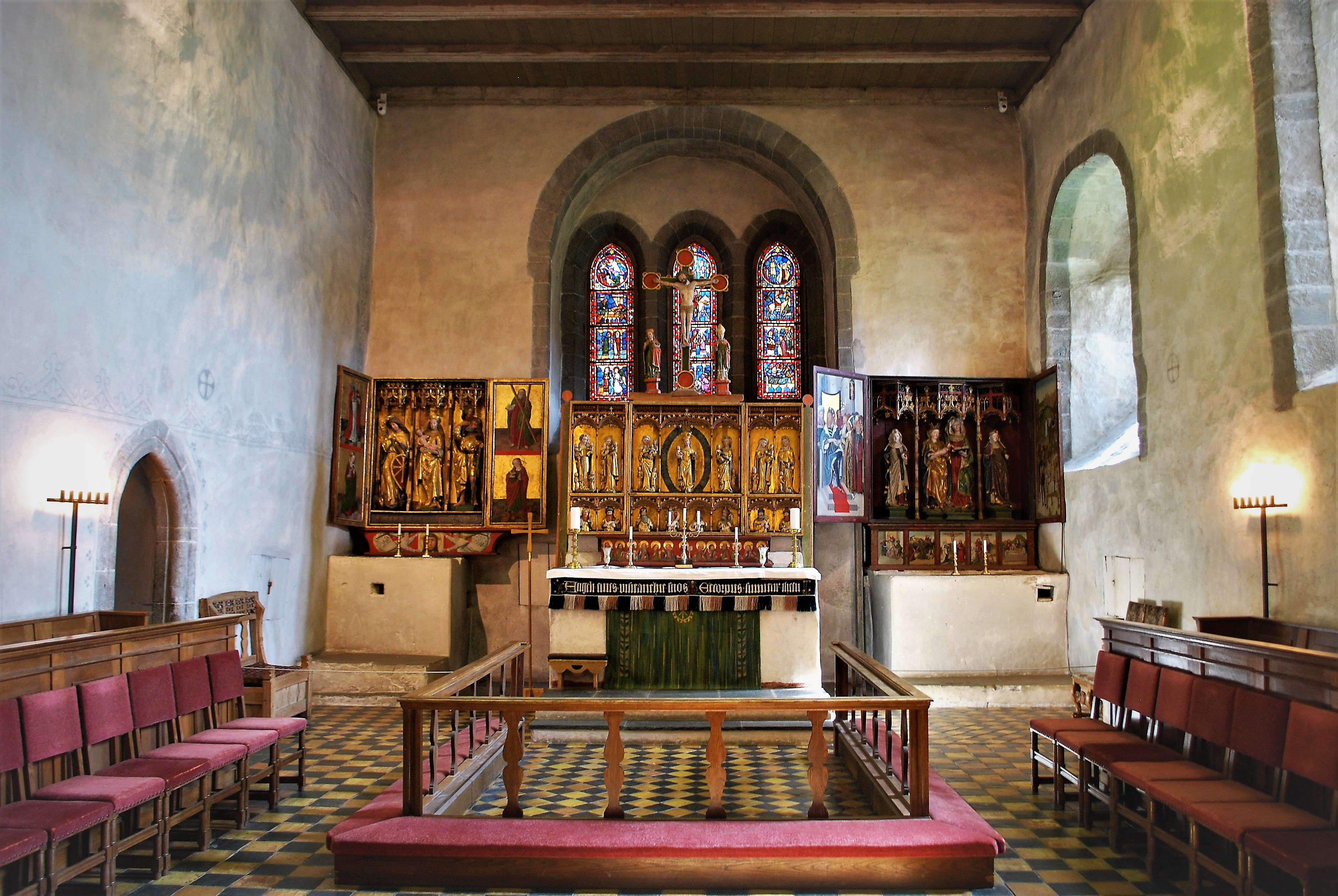 Trondenes Kirke, Harstad, Norway